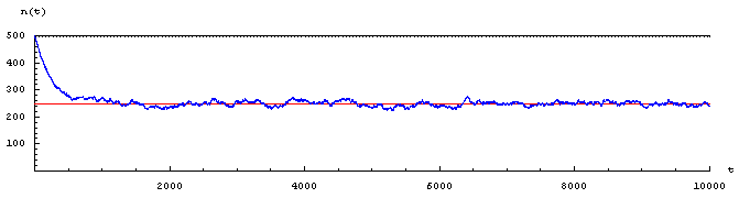 Numerical simulation of a Ehrenfest urn model with 500 balls. All the balls are initially in one urn, say A. The figure shows the number of balls in urn A as a function of discrete time . The first 1000 steps are shown.